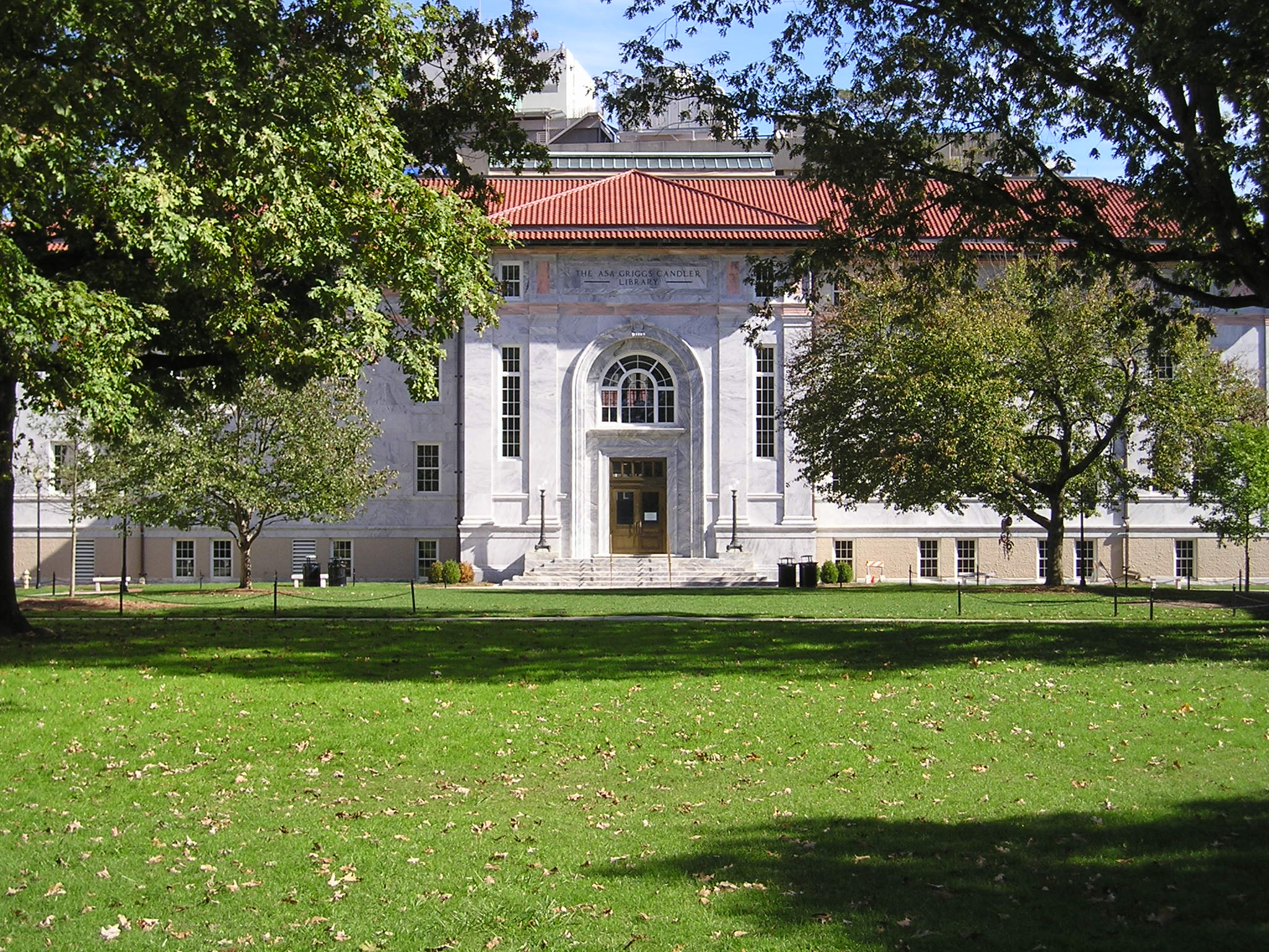 Candler Library at Emory University.